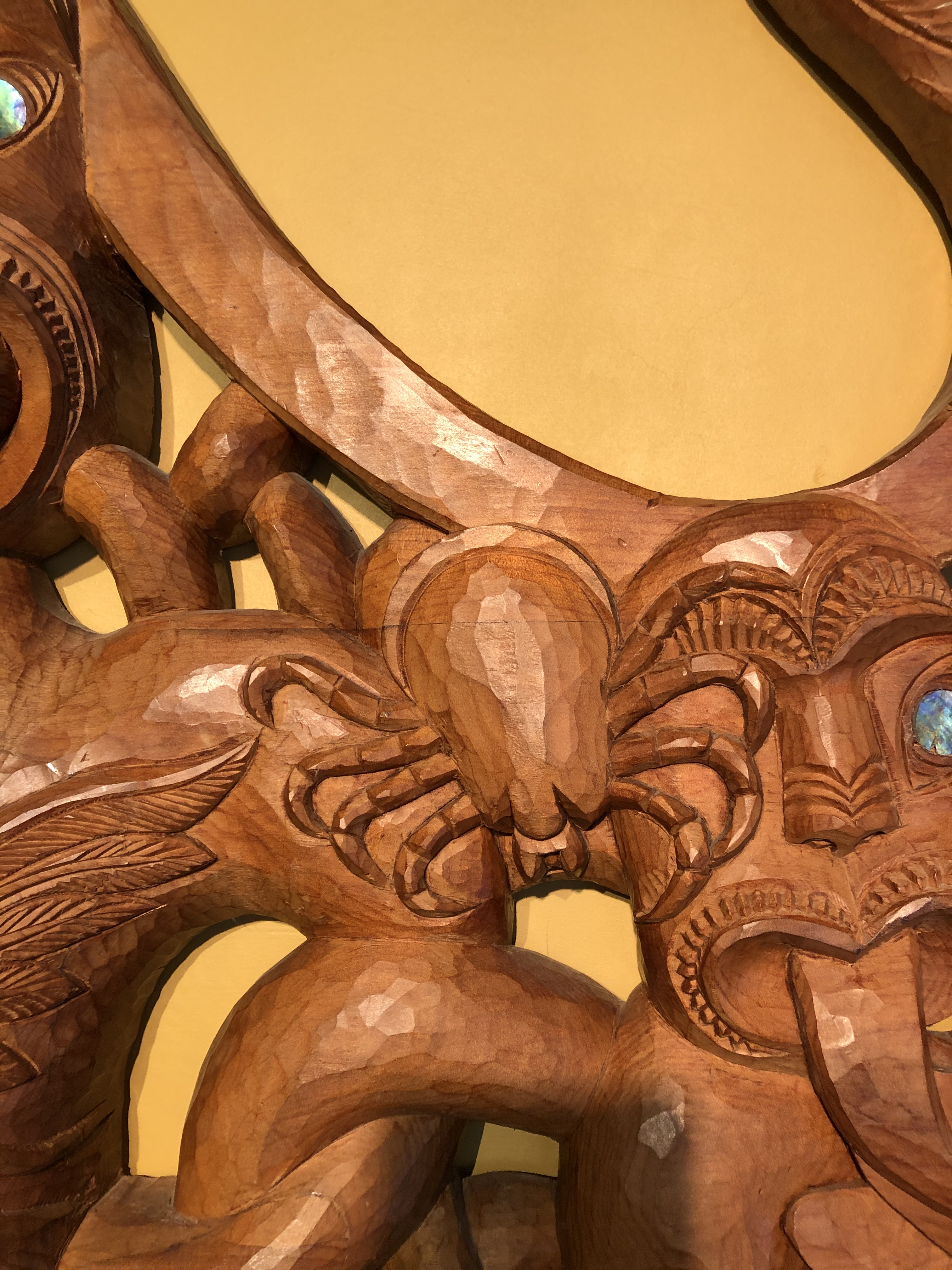 New Zealand Seabird tick carved by Denis Conway onto a Maori pare, on display at the New Zealand Arthropod Collection at Landcare Research, Auckland.